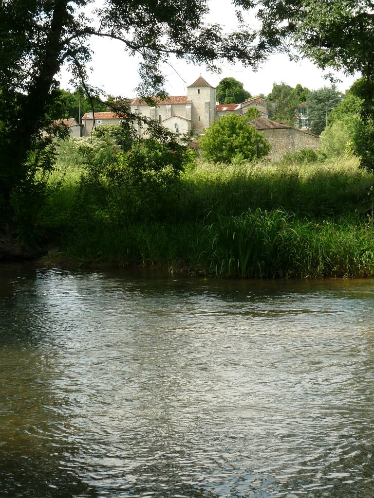 river Son-Sonnette at Valence, Charente, France